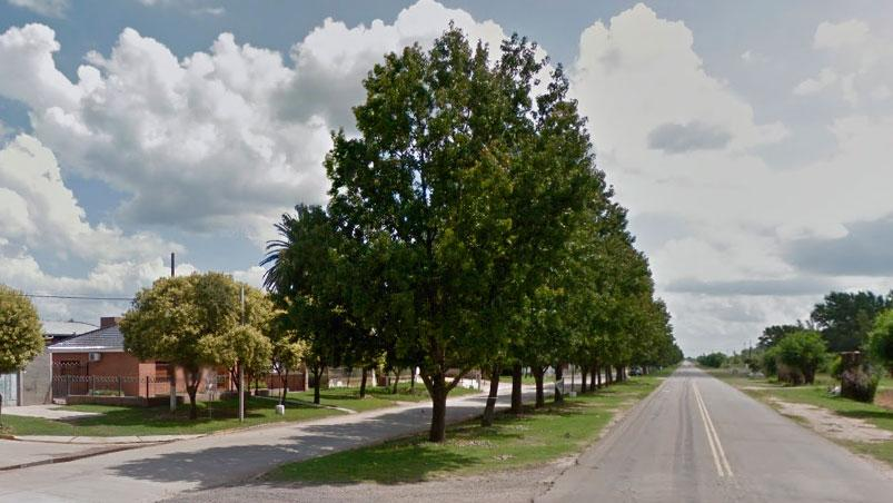 Ruta Que pasa por la Localidad